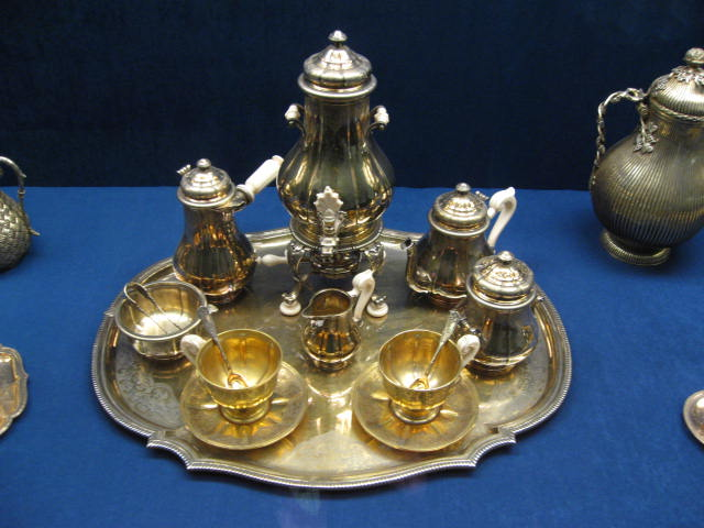 Parts of the Valuable Collection (Değerli Eşyalar) in Dolmabahçe Palace.